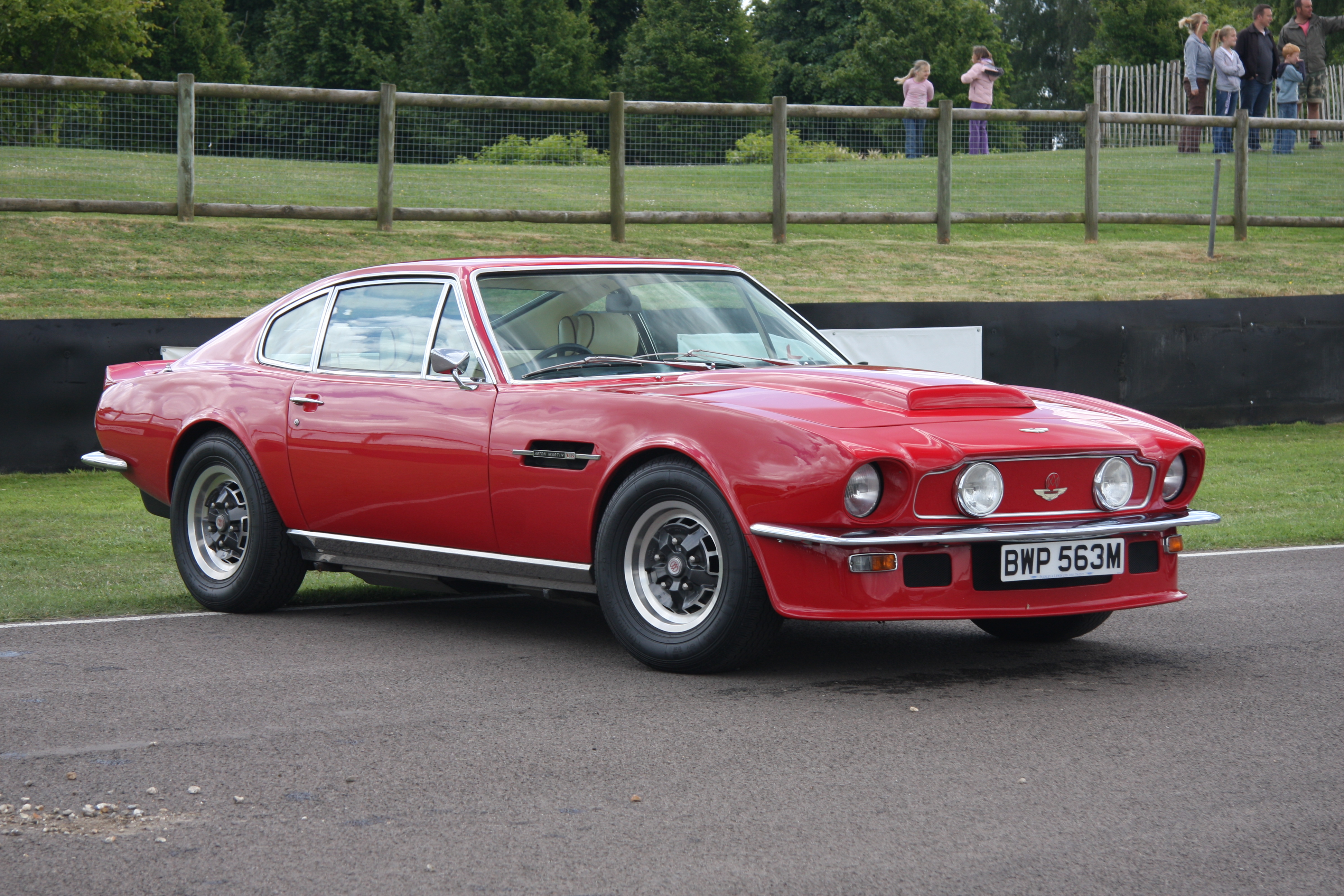 Aston Martin V8 Vantage